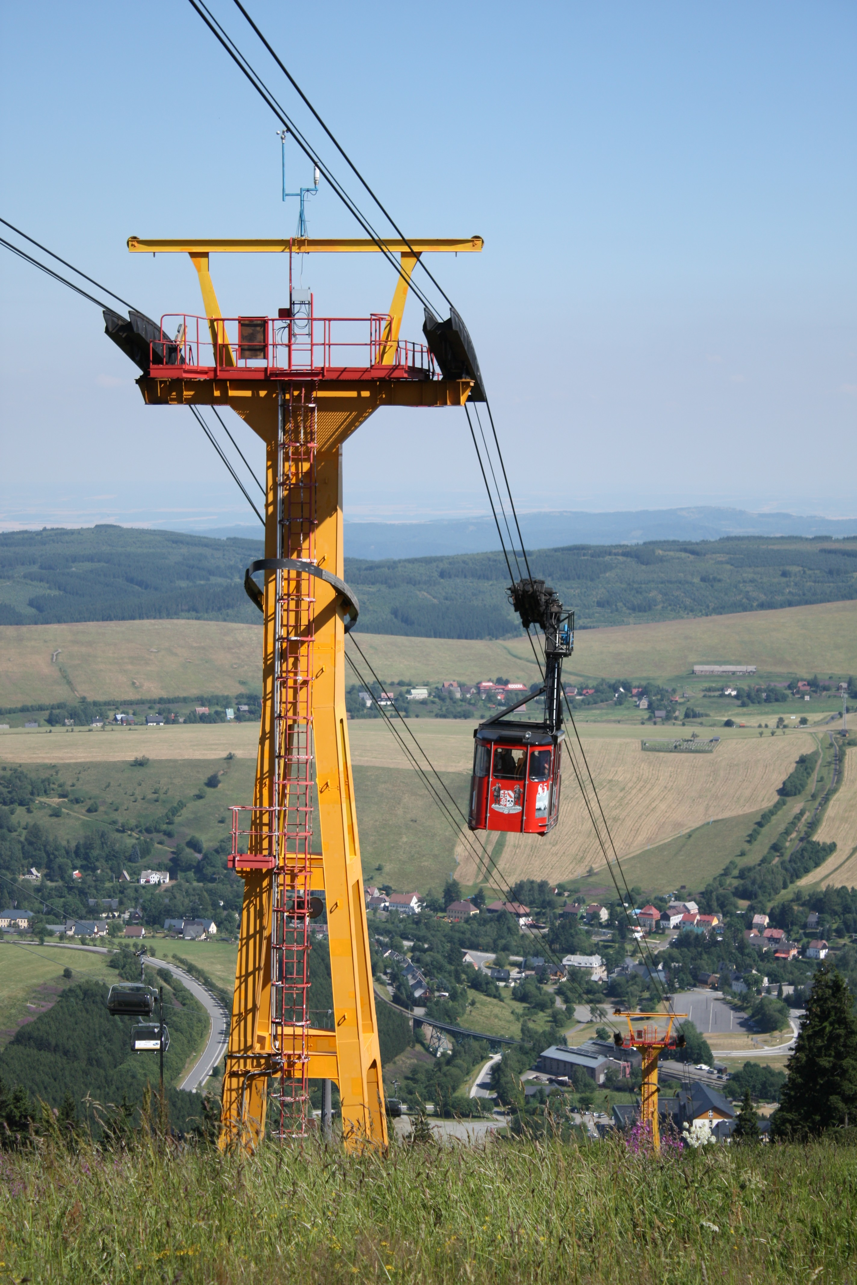 Fichtelberg Schwebebahn